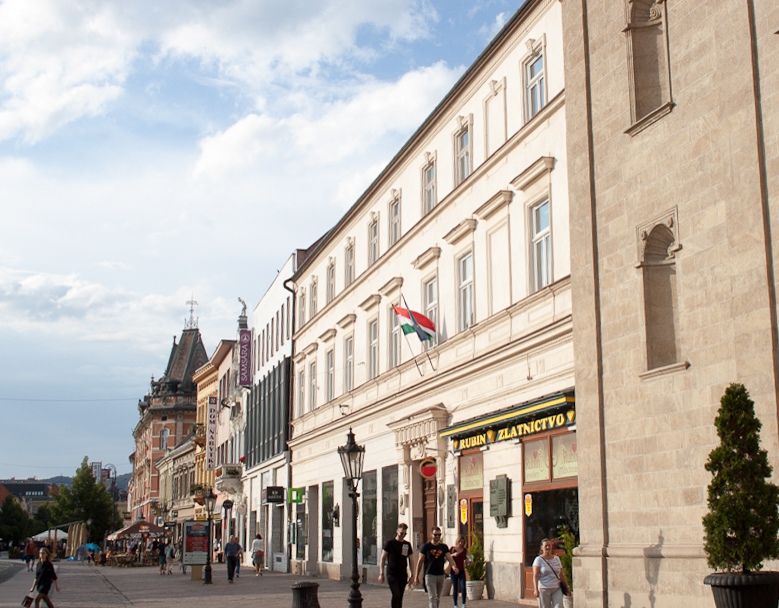 Consulate General of Hungary in Kosice